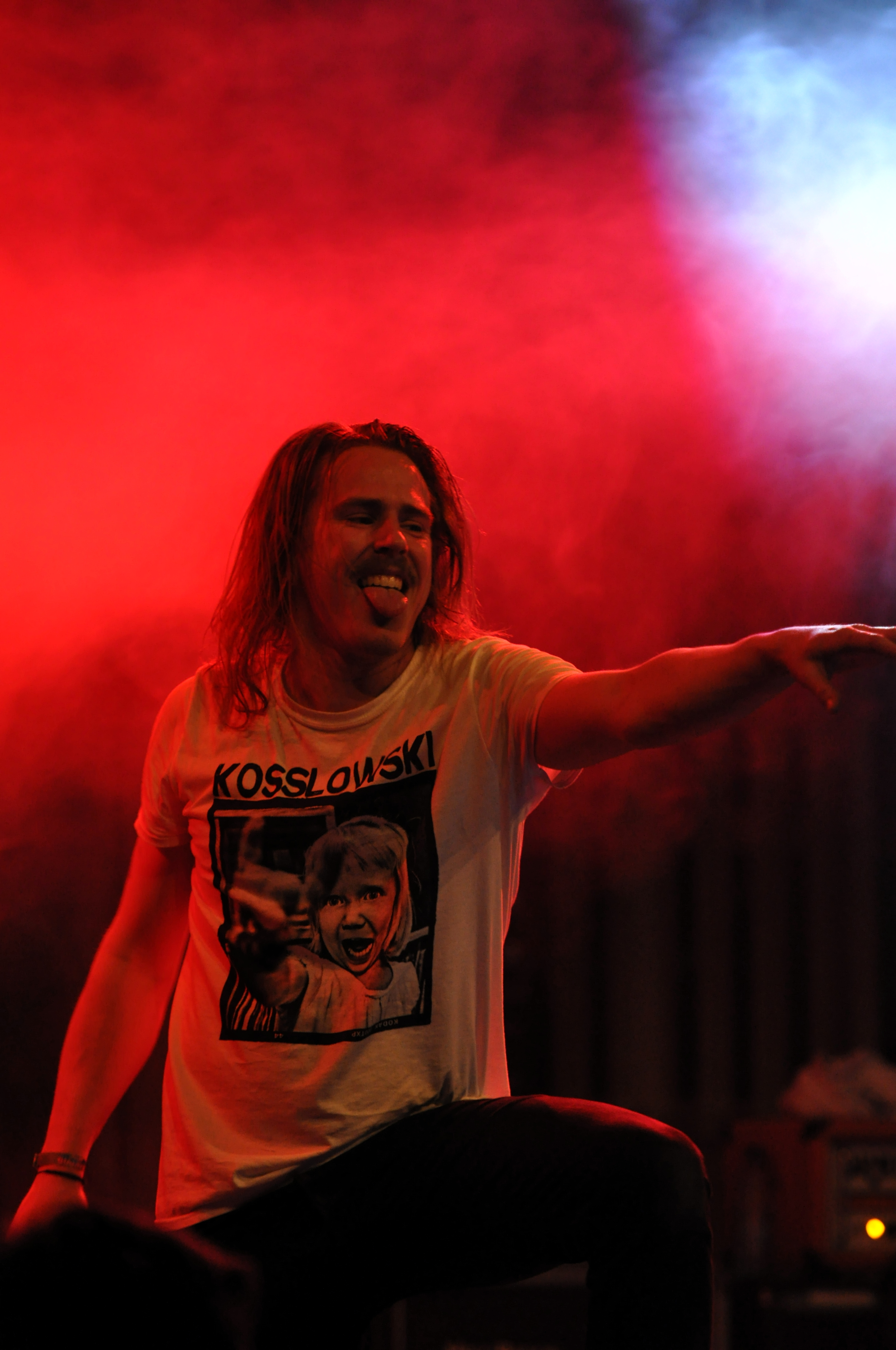 John Coffey at Paspop 2013, Schijndel, NL